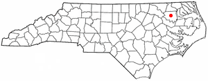 Category:North Carolina Dot Maps